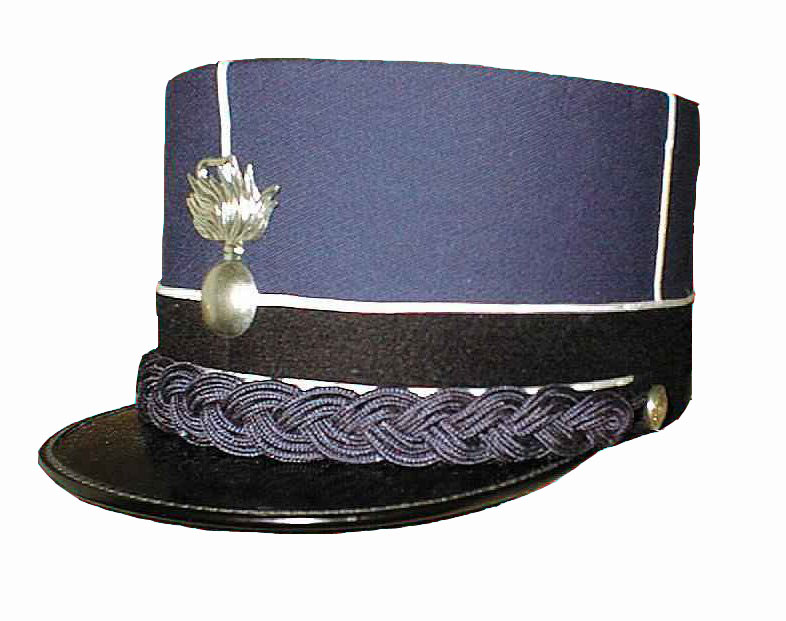 Kepi of the Vatican police force (old design).